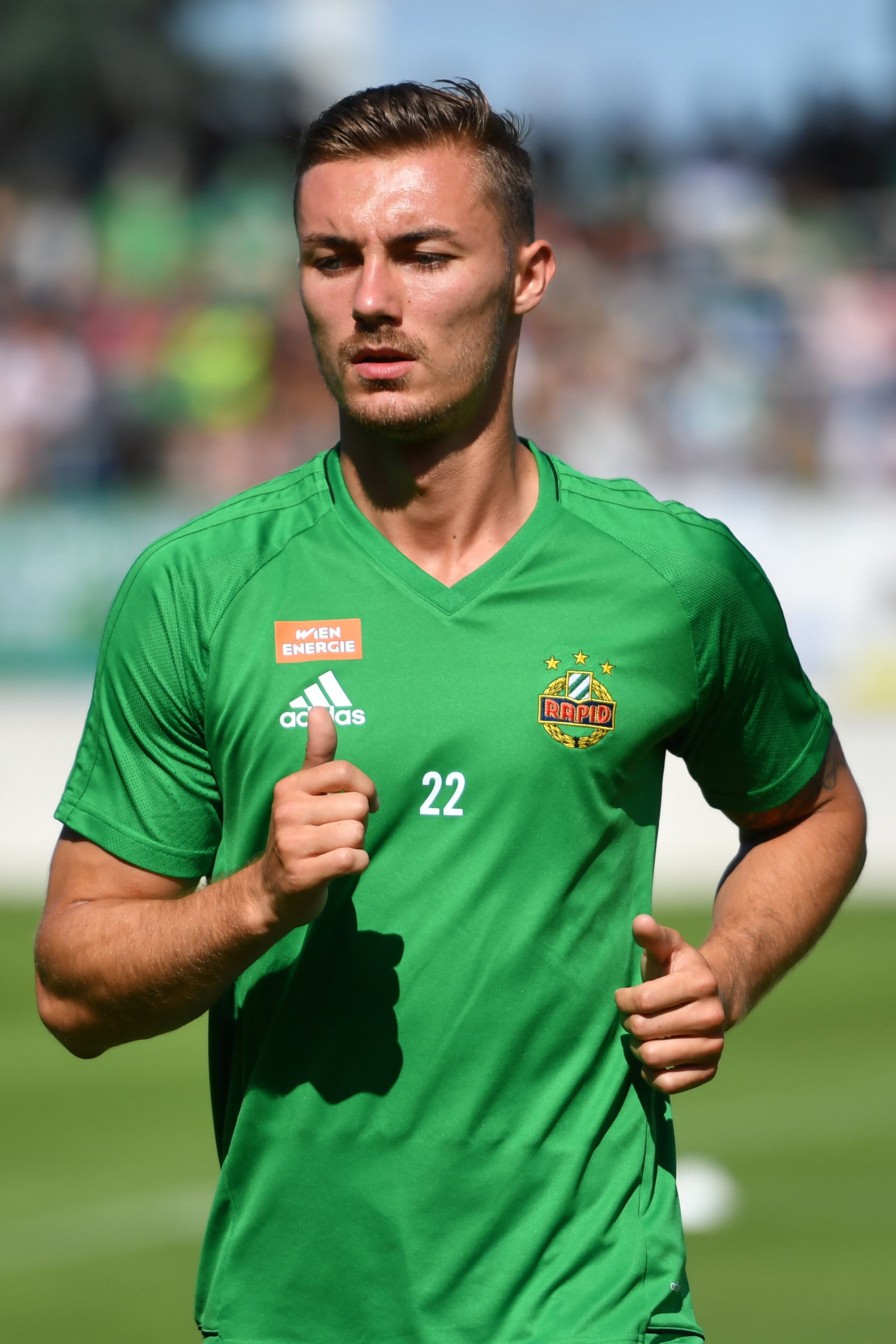 1/7/2017, Amstetten, Austria, sports, soccer, Tipico Fussball Bundesliga - preparation match SK Rapid Wien vs Celtic Glasgow. Image shows Mario Pavelic (SCR).